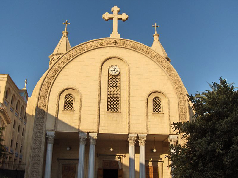 The Alexandrian Patriarchate - St. Mark Cathedral